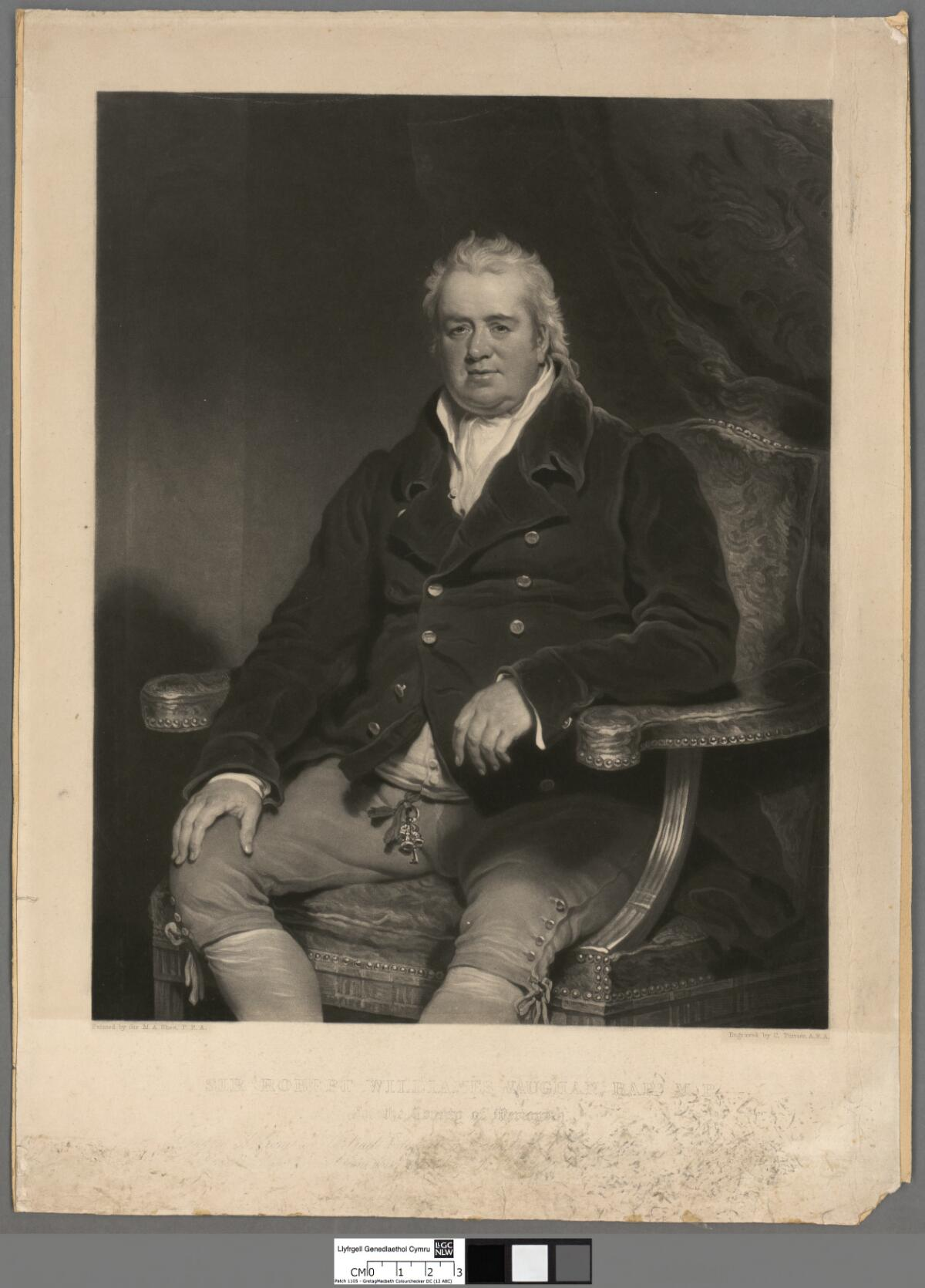 A portrait from the Welsh Portrait Collection at the National Library of Wales. Depicted person: Sir Robert Vaughan, 2nd Baronet – Welsh landowner and MP